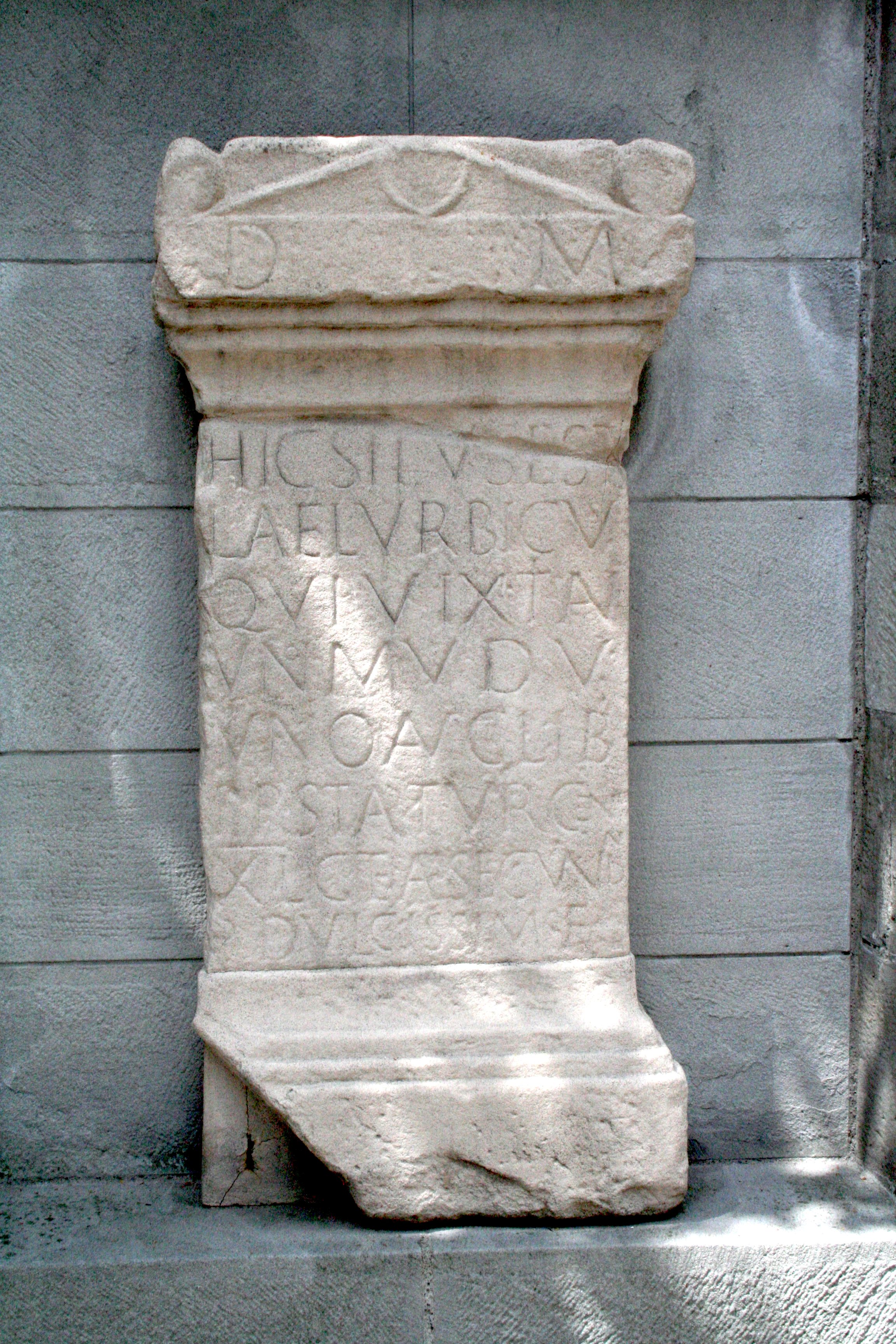 Modern replica of an Ancient Roman gravestone along the Pfalzgasse on Lindenhof hill in Zürich, Switzerland (the original, now in the Landesmuseum Zürich, dates from 185/200 AD). It contains the first recorded mention of "Turicum" (latin name of Zurich). The gravestone was erected for Lucius Aelius Urbicus, a one-year old child, by his parents Unio, freedman of Augustus, and Aelia Secundina. Corpus Inscriptionum Latinarum, XIII 5244.